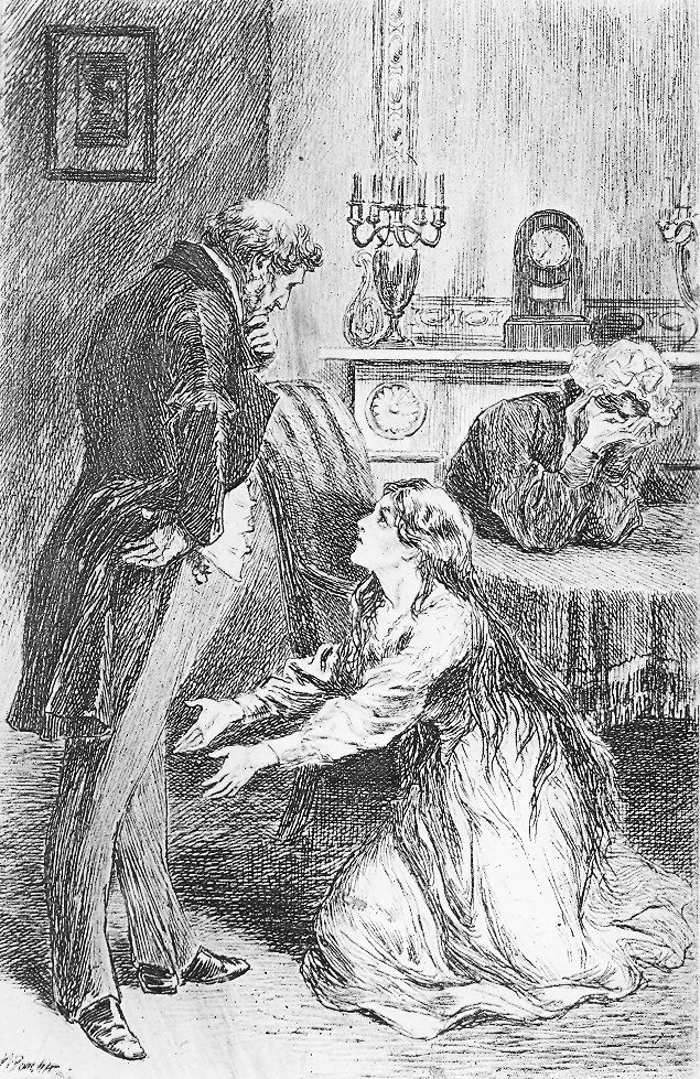 Frontispiece of 1901 edition of Cousin Betty. Caption: "Hortense fell at her father's feet like a crazed thing". Adeline Hulot is seated at the table.